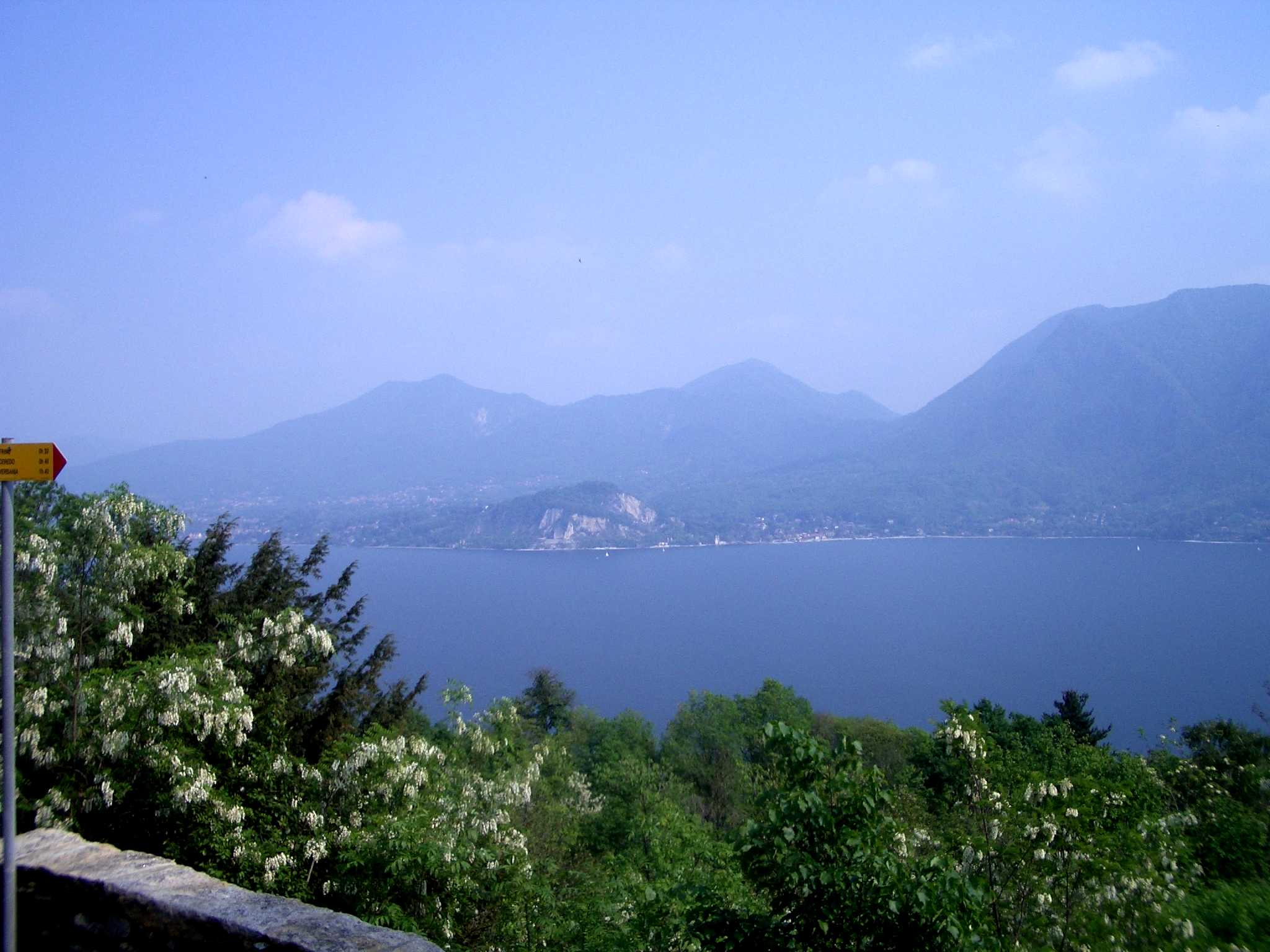 Sacro Monte di Ghiffa, (Verbania), Italy, Landscape from the terrace